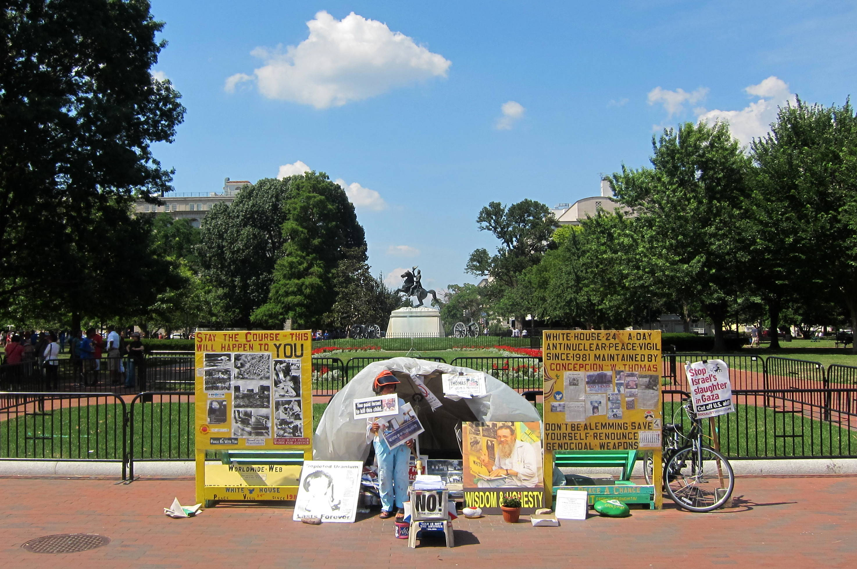 Concepcion Picciotto is an American activist who has lived in a peace camp across from the White House in Washington, D.C., since 1981.